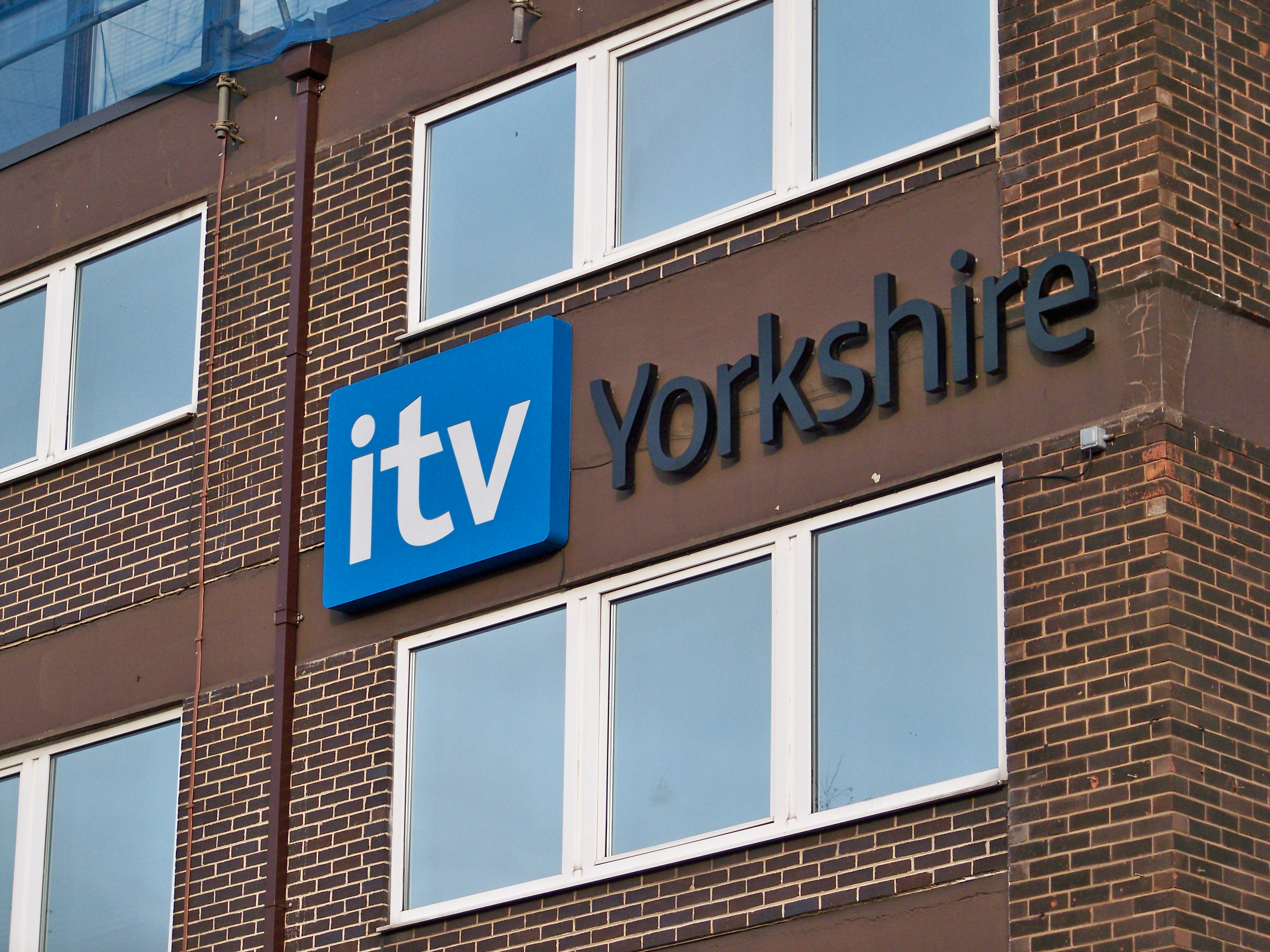 The 'ITV Yorkshire' displayed where once the 'Yorkshire Television' logo was displayed on the Leeds Studios. Taken around midday on Thursday the 31st of December 2009.